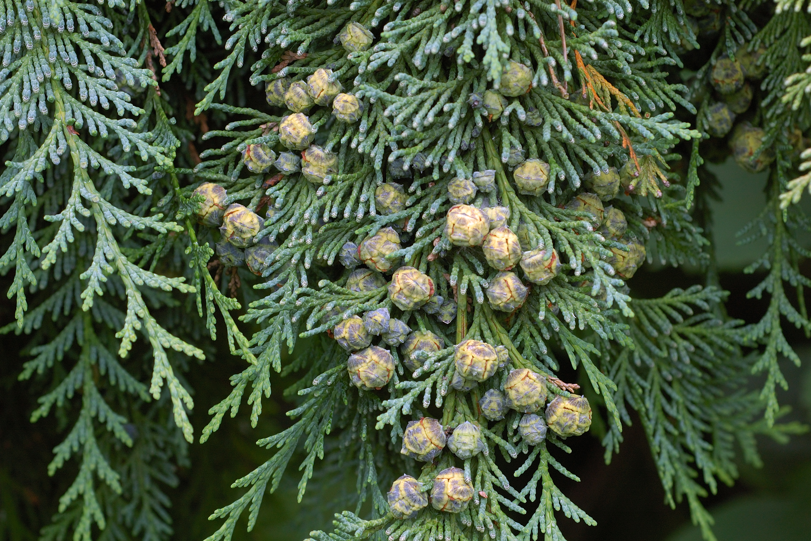 Chamaecyparis lawsoniana, photographed at The San Francisco Botanical Garden at Strybing Arboretum